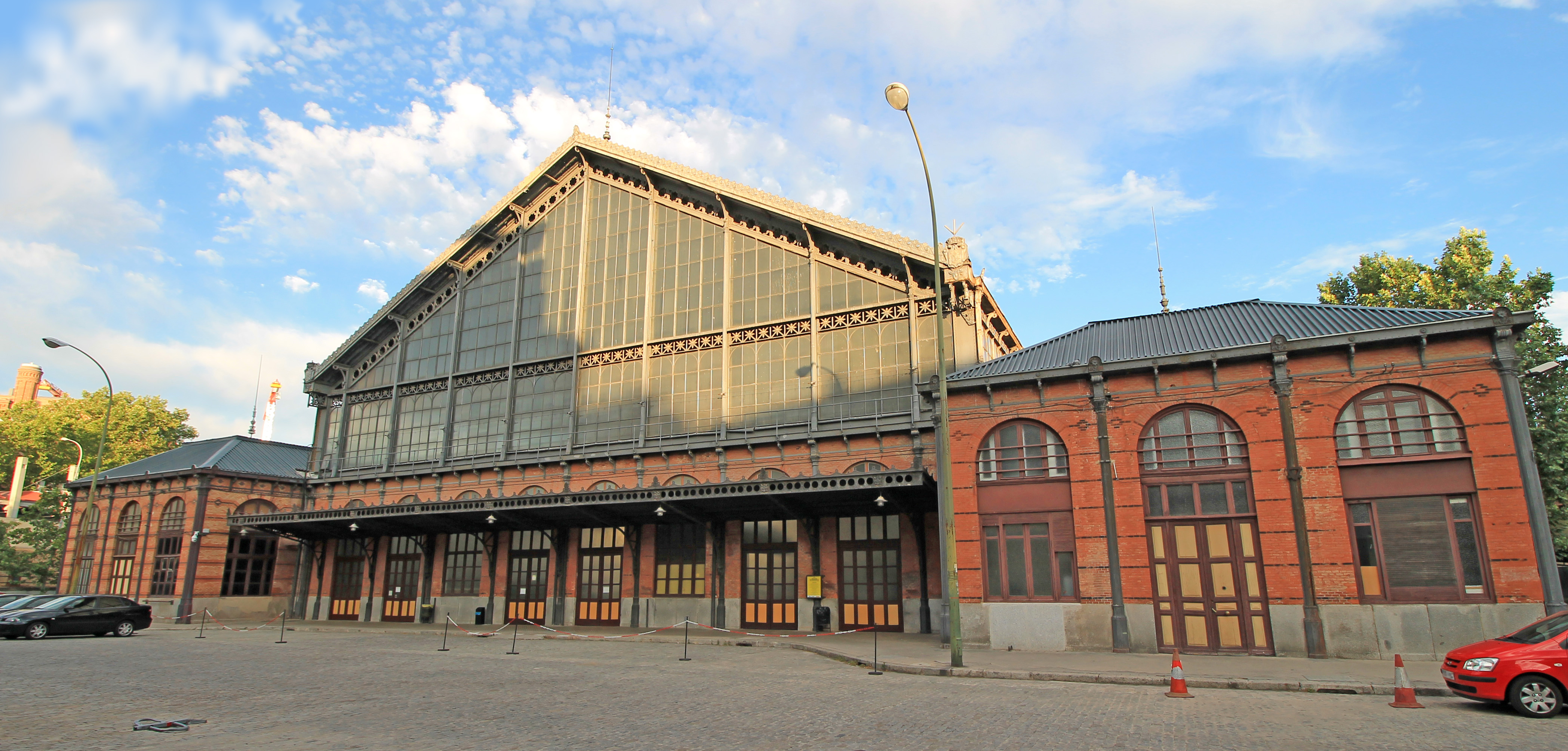 Façade of the Railway Museum in Madrid (Spain).